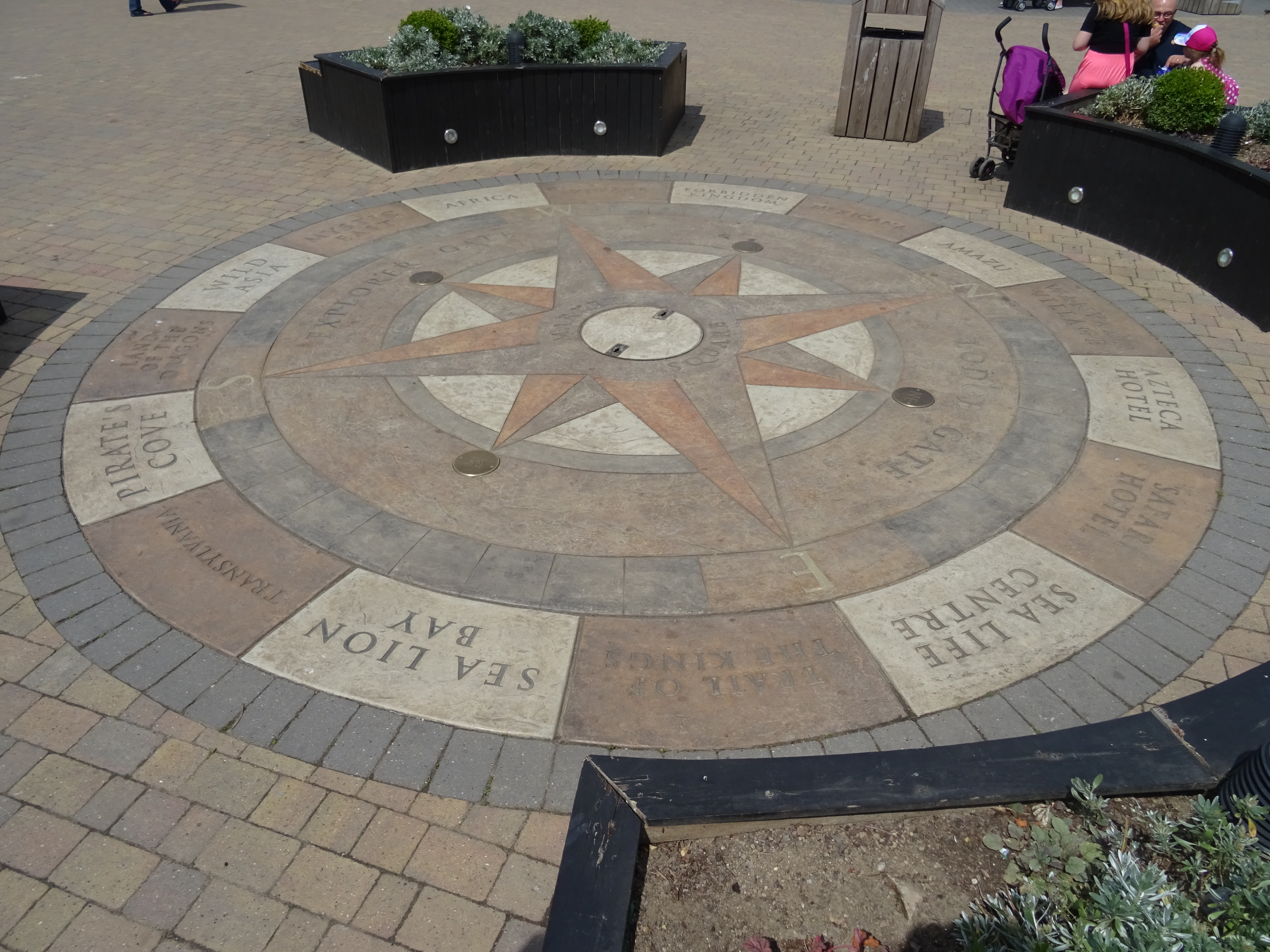 Central compass in Market Square, Chessington World of Adventures.